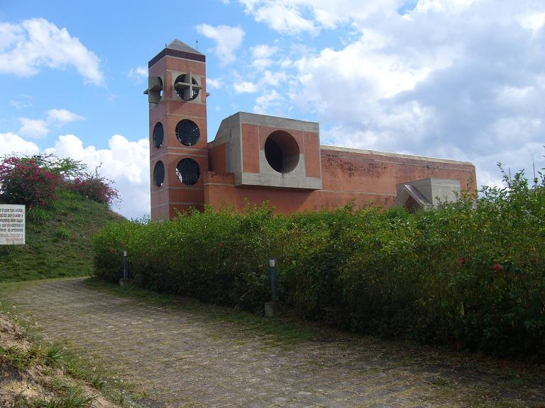 Güigüe Abbey, Carlos Arvelo municipality, Carabobo State, Venezuela